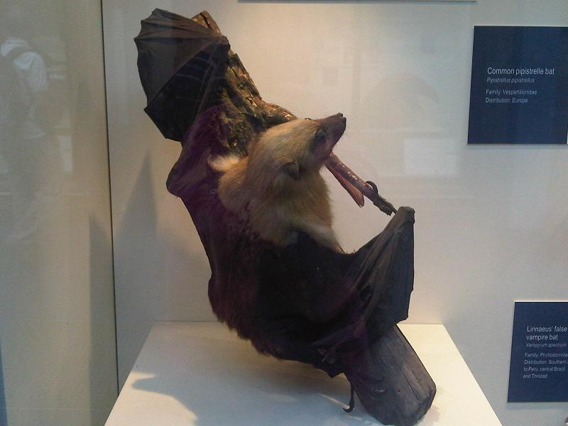 Taxidermied Indian Flying-fox (Pteropus giganteus) at the Natural History Museum in London, England.